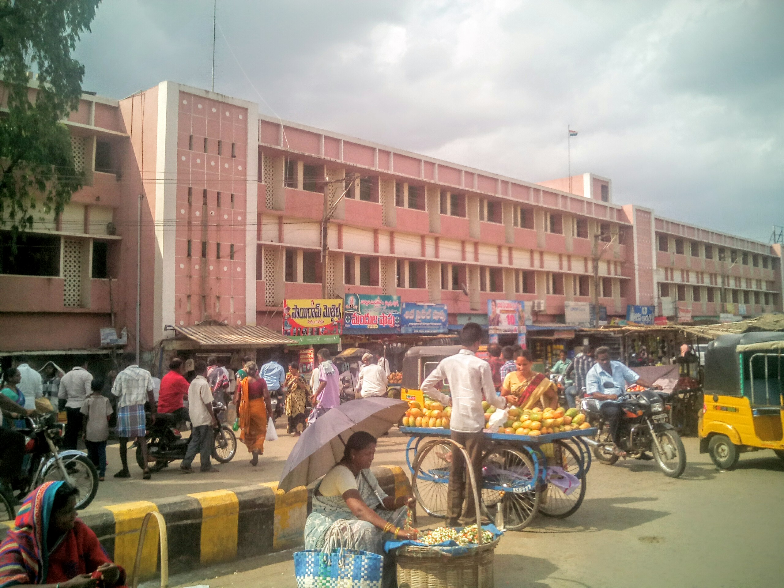 Municipal market and office Tenali municipality.